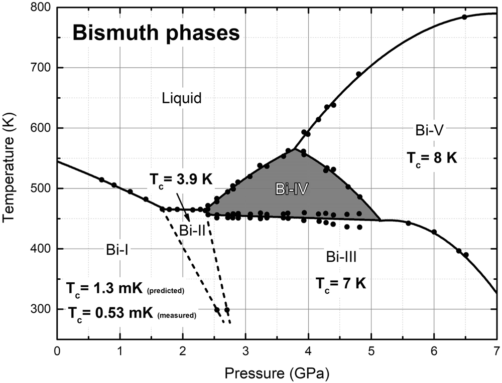 Pressure-temperature phase diagram of bismuth. The lines fit experiment (solid circles) reported in Tc refers to superconducting transition temperature